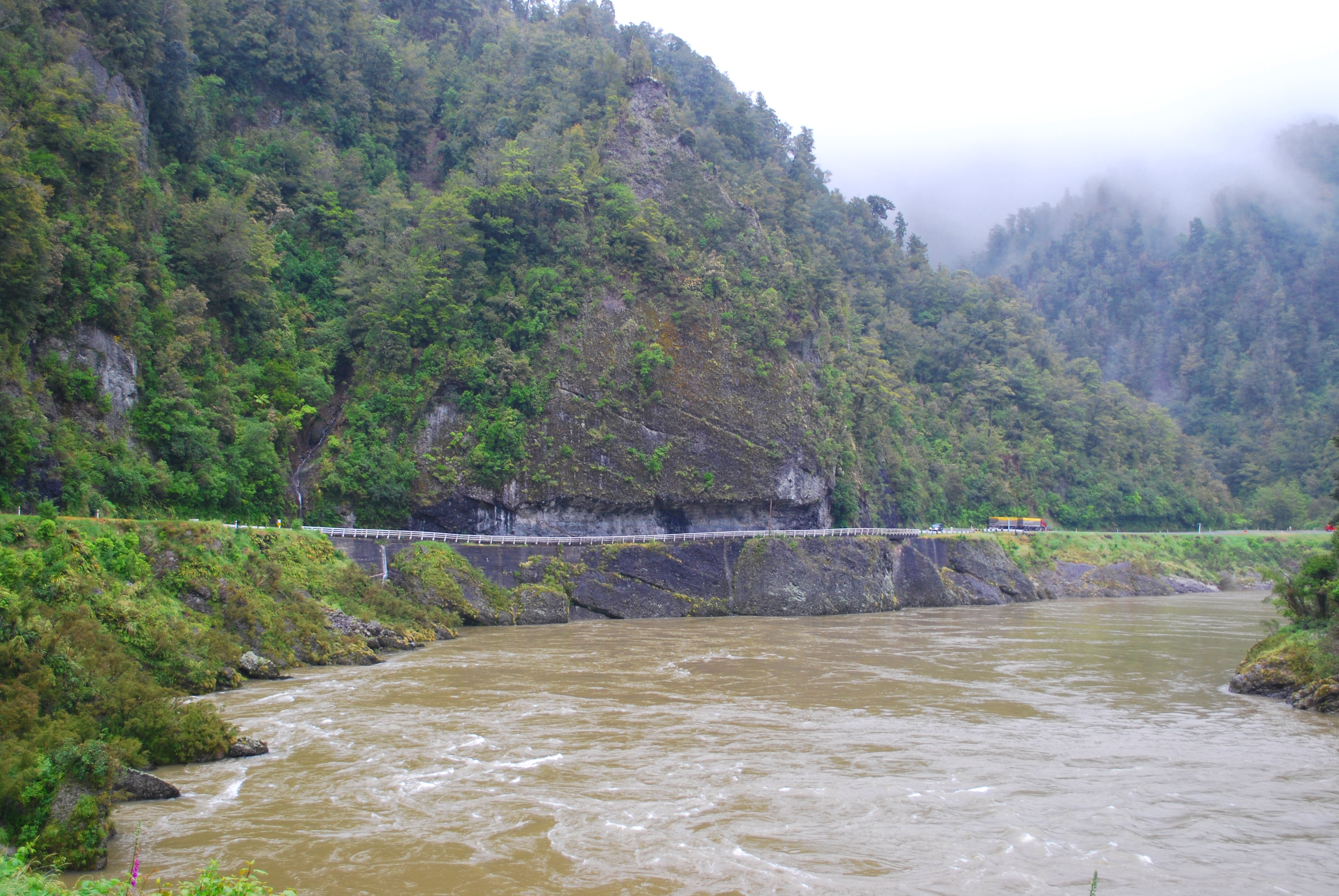 Hawks Crag, a cutting into a cliff on New Zealand State Highway 6 adjacent to the Buller River